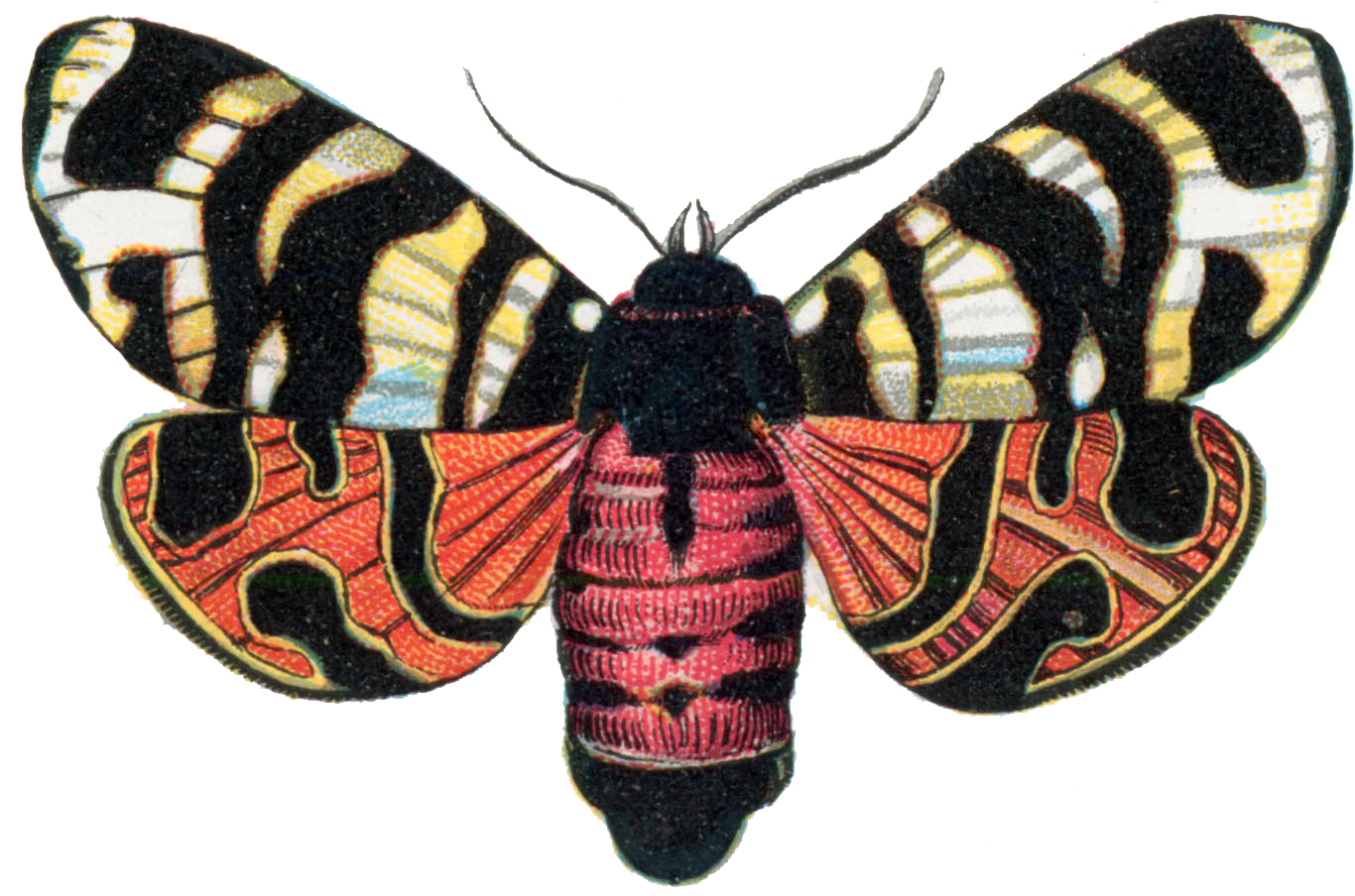 Arctia Hebe or Arctia festiva